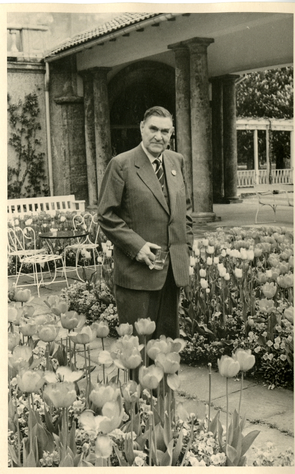 Karl Albin Johansson in Bad Nauheim 1958.